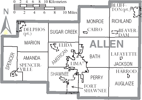 Map of Allen County, Ohio, United States with township and municipal boundaries